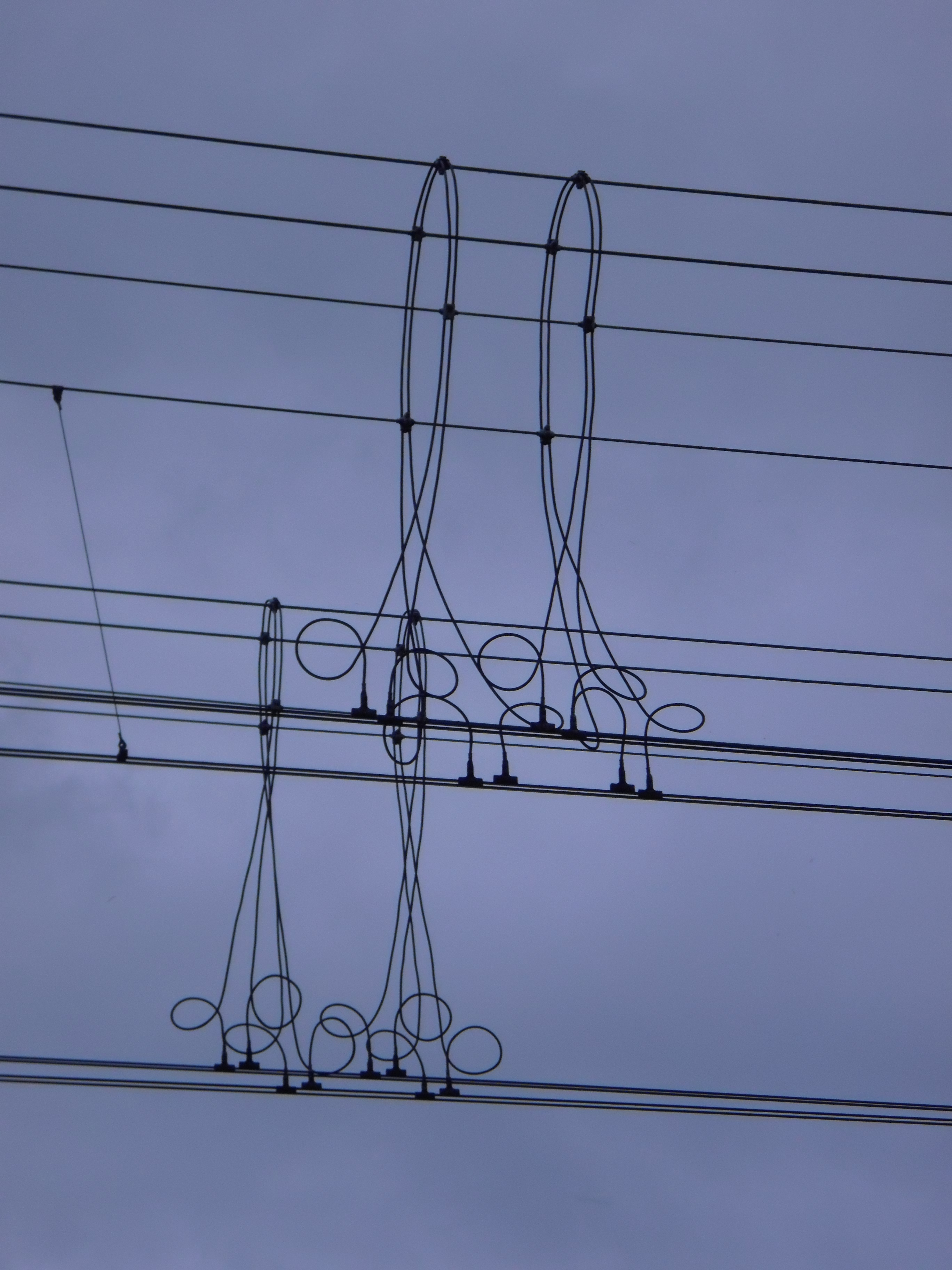 Overhead lines near Delft, The Netherlands.